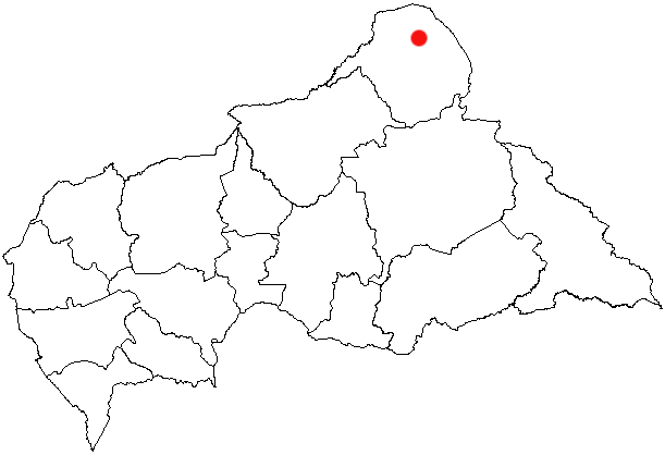 Birao, Central African Republic Location Map; created with the GIMP. Made by User:Acntx.